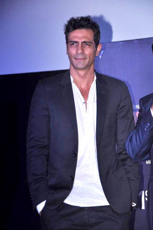 Arjun Rampal at the First look launch of 'Heroine'